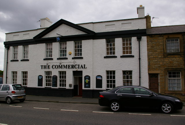 Commercial Hotel, Winlaton The Commercial Hotel, Commercial Street, Winlaton, Blaydon on Tyne, Tyne and Wear, NE21 5QX. My grandfather was the publican here during the 1920s. At that time the pub had an upstairs gym.